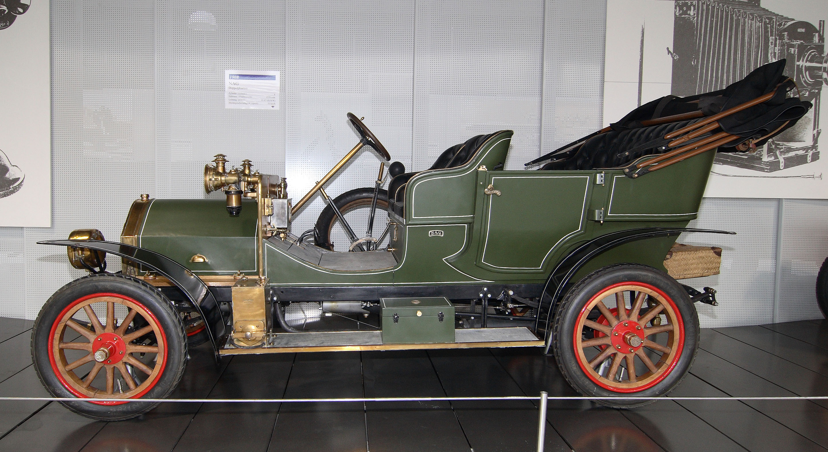 NAG car from 1908; Photo made in [1]